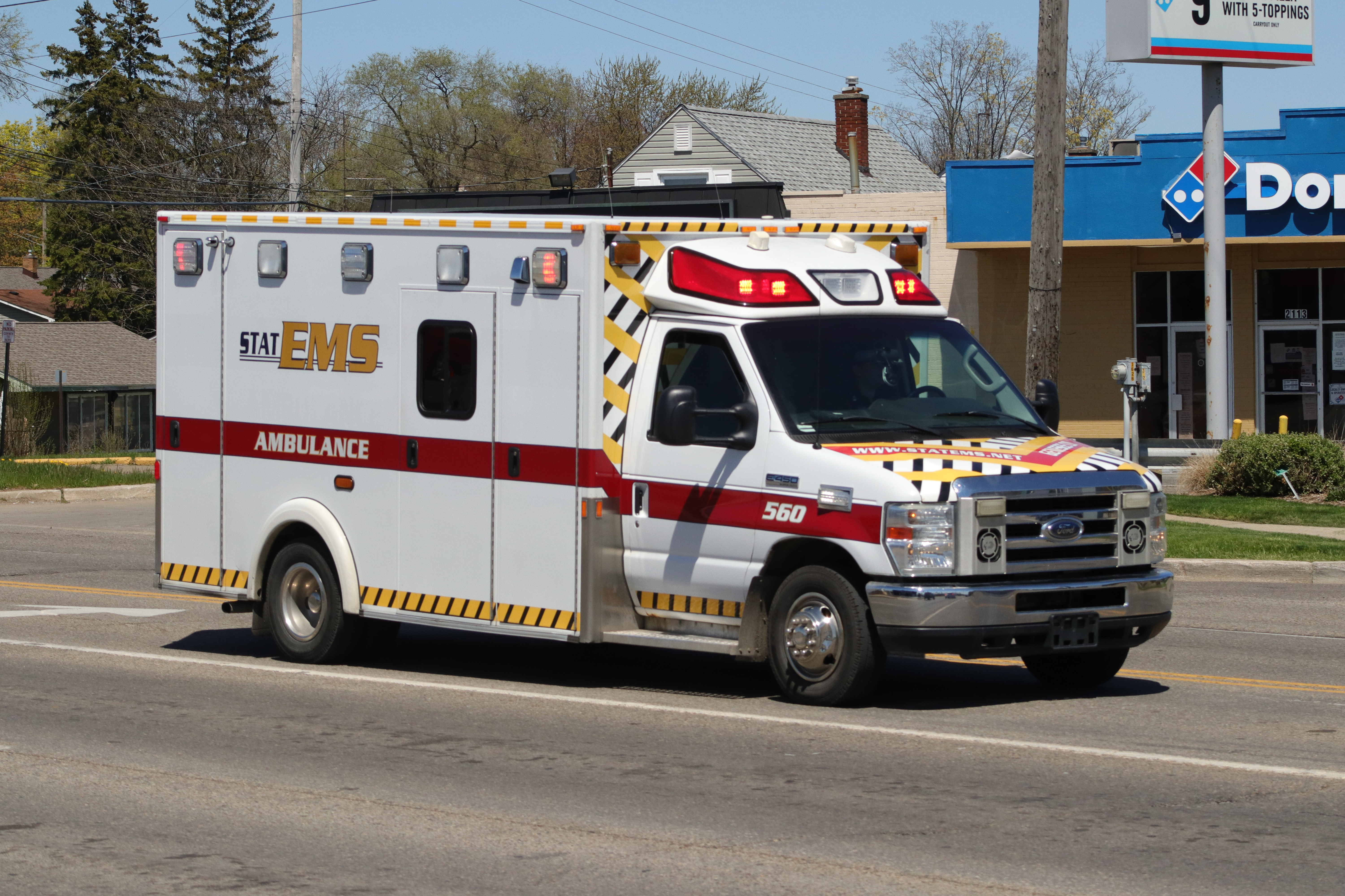 Ambulance